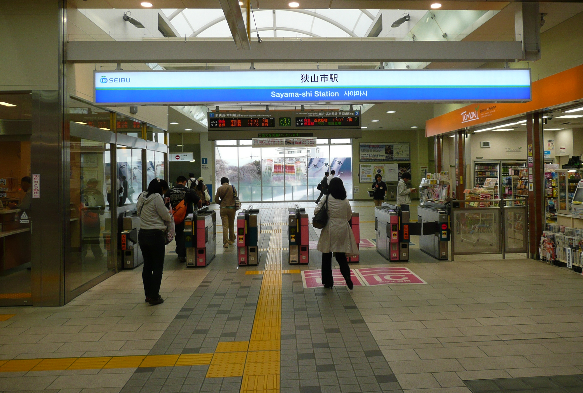 Ticekt gate of Sayamashi Station